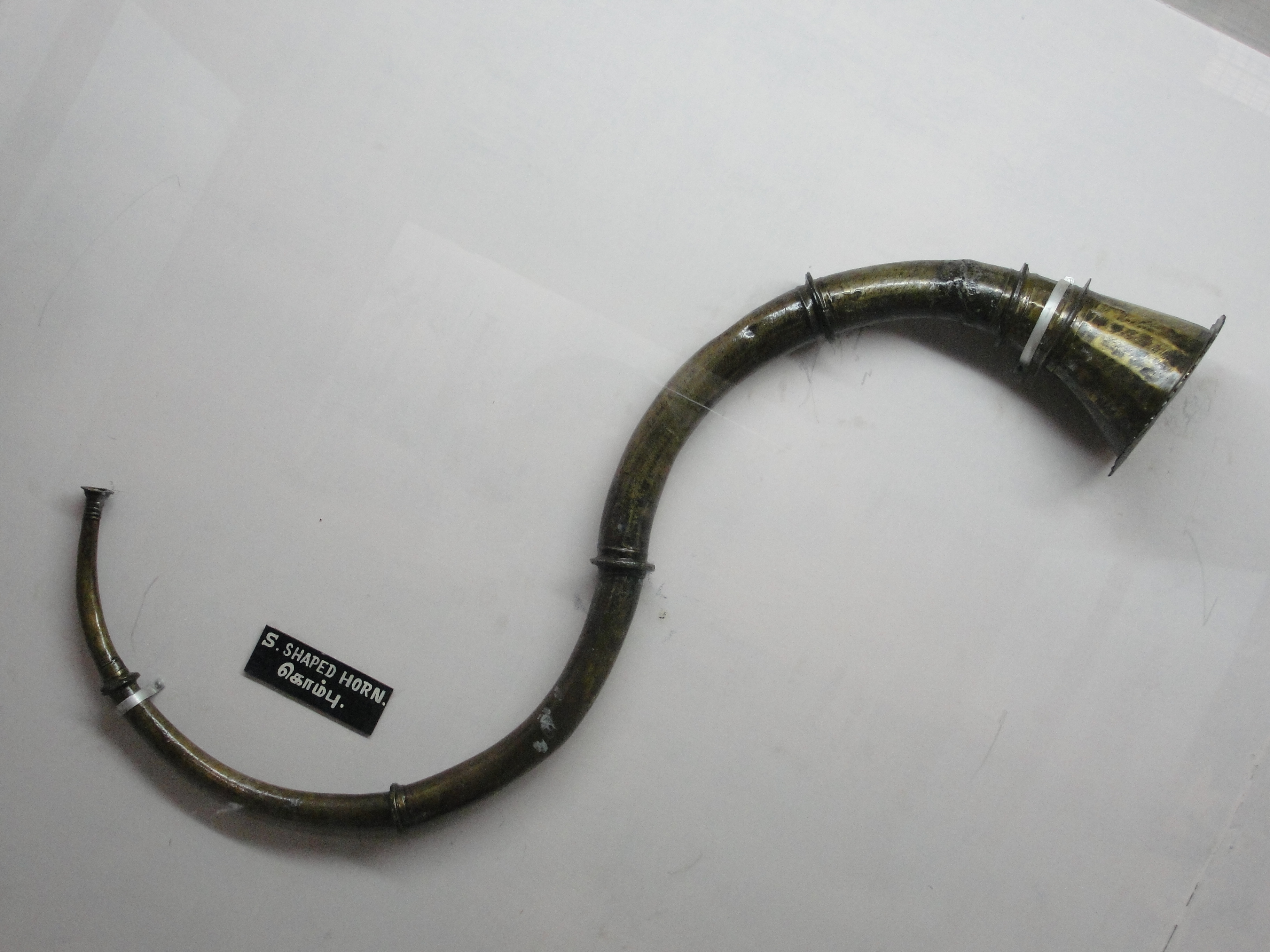 A Horn instrument in Pudukottai museum